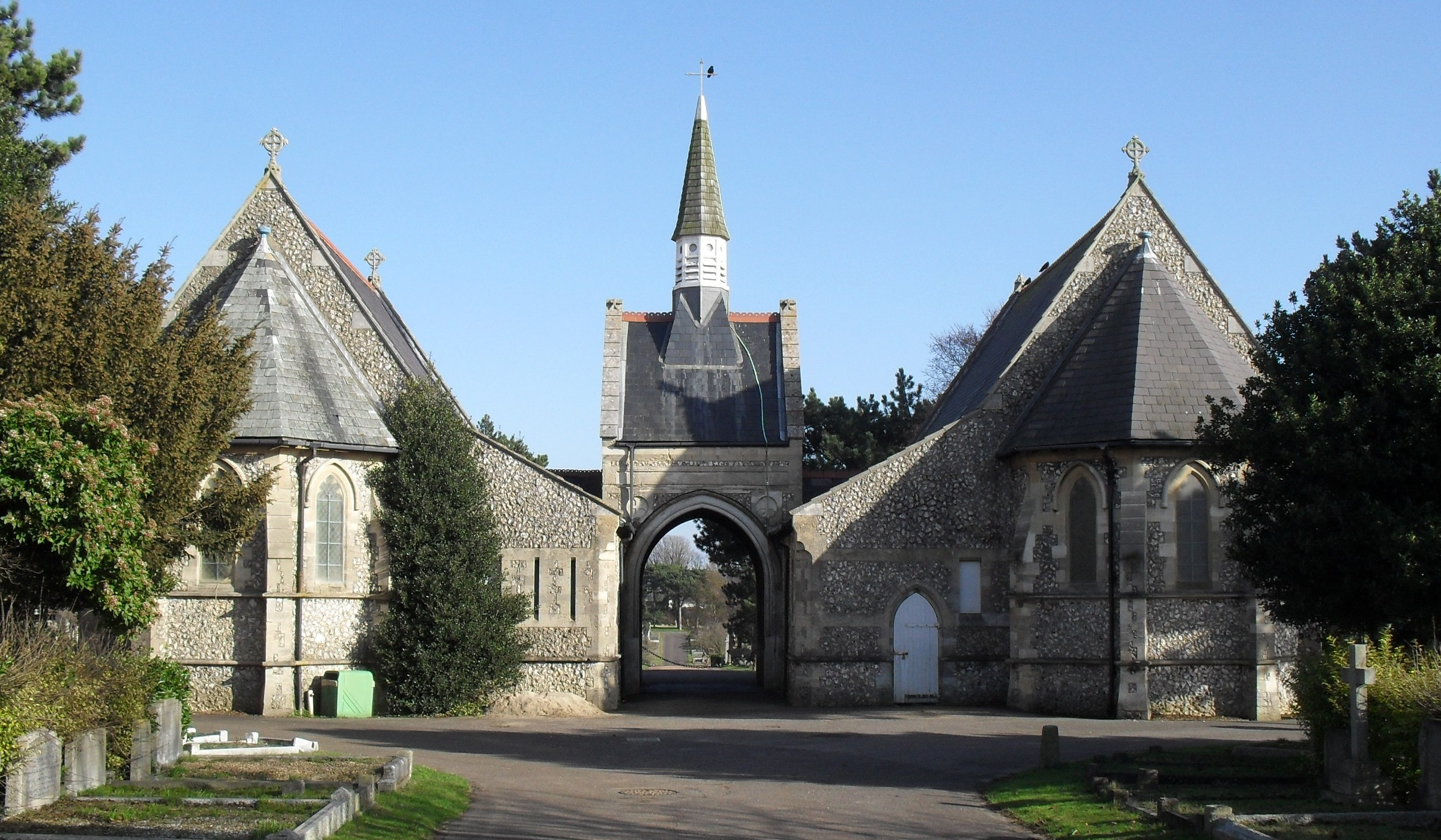 The Anglican and Nonconformist Chapels at Hove Cemetery, Old Shoreham Road, Hove, City of Brighton and Hove, England. Designed by E.B. Ellice Clark in 1880.